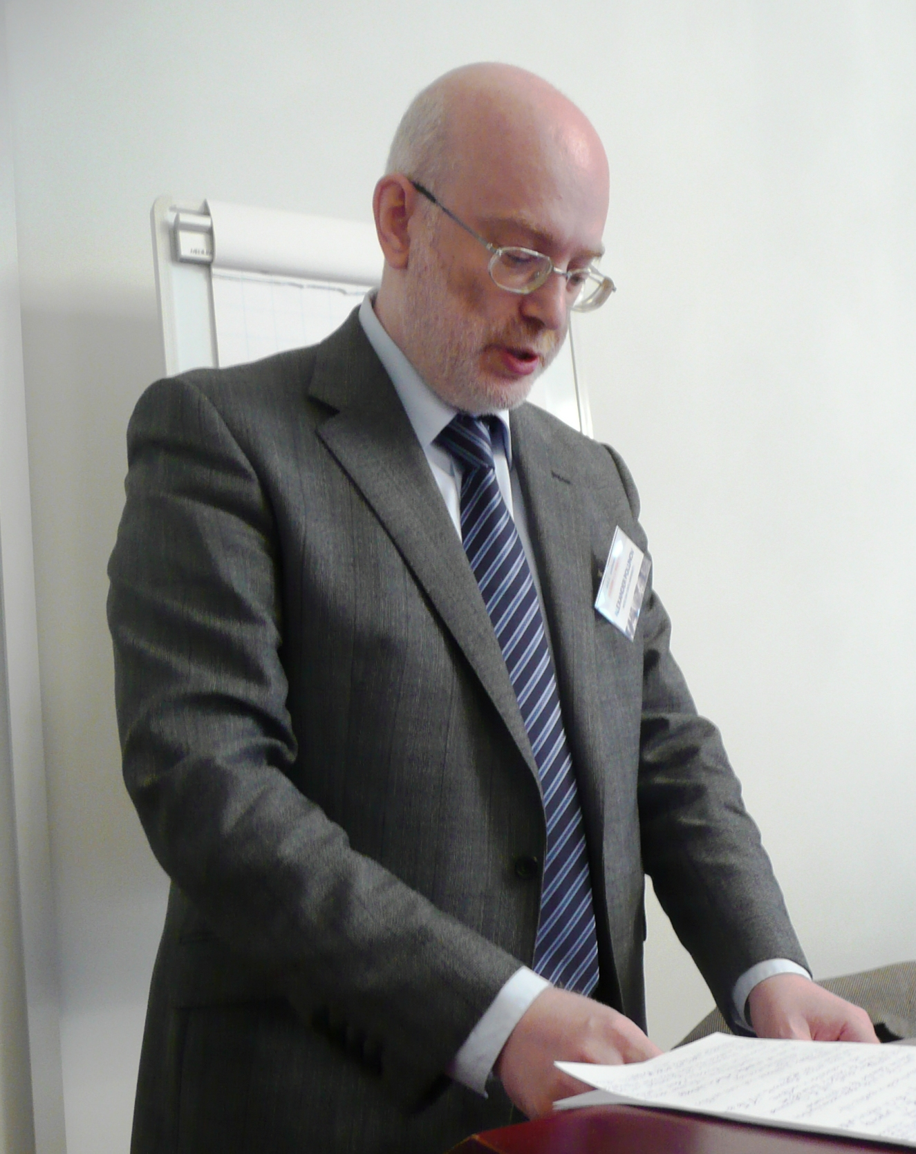 Russian church historian Alexander Polunov (born 1966) at the CIHEC annual conference 2012 "Religion and Resistance in Europe" in the University of Tartu, 12 June, 2012.